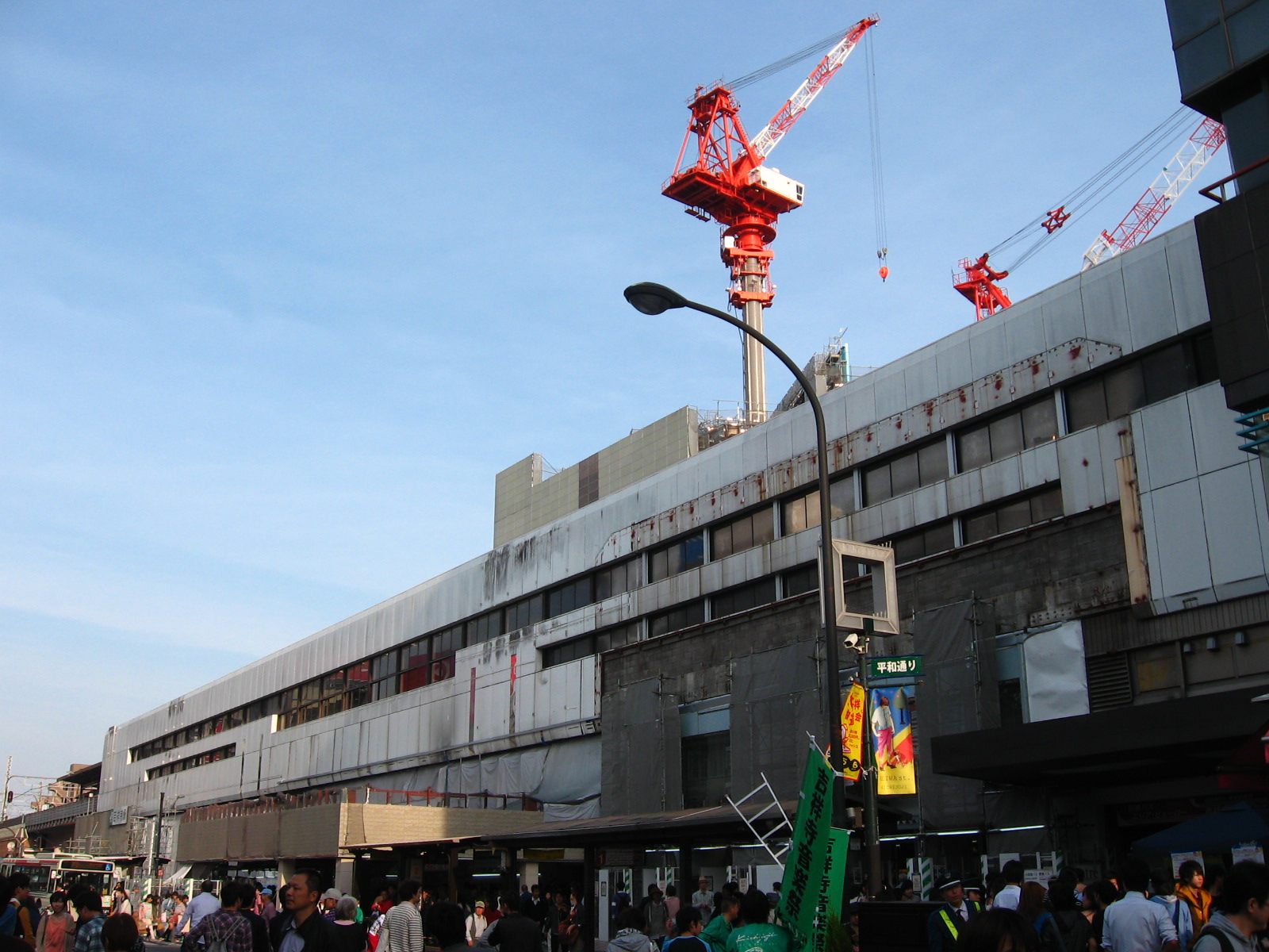 JR Kichijoji Station